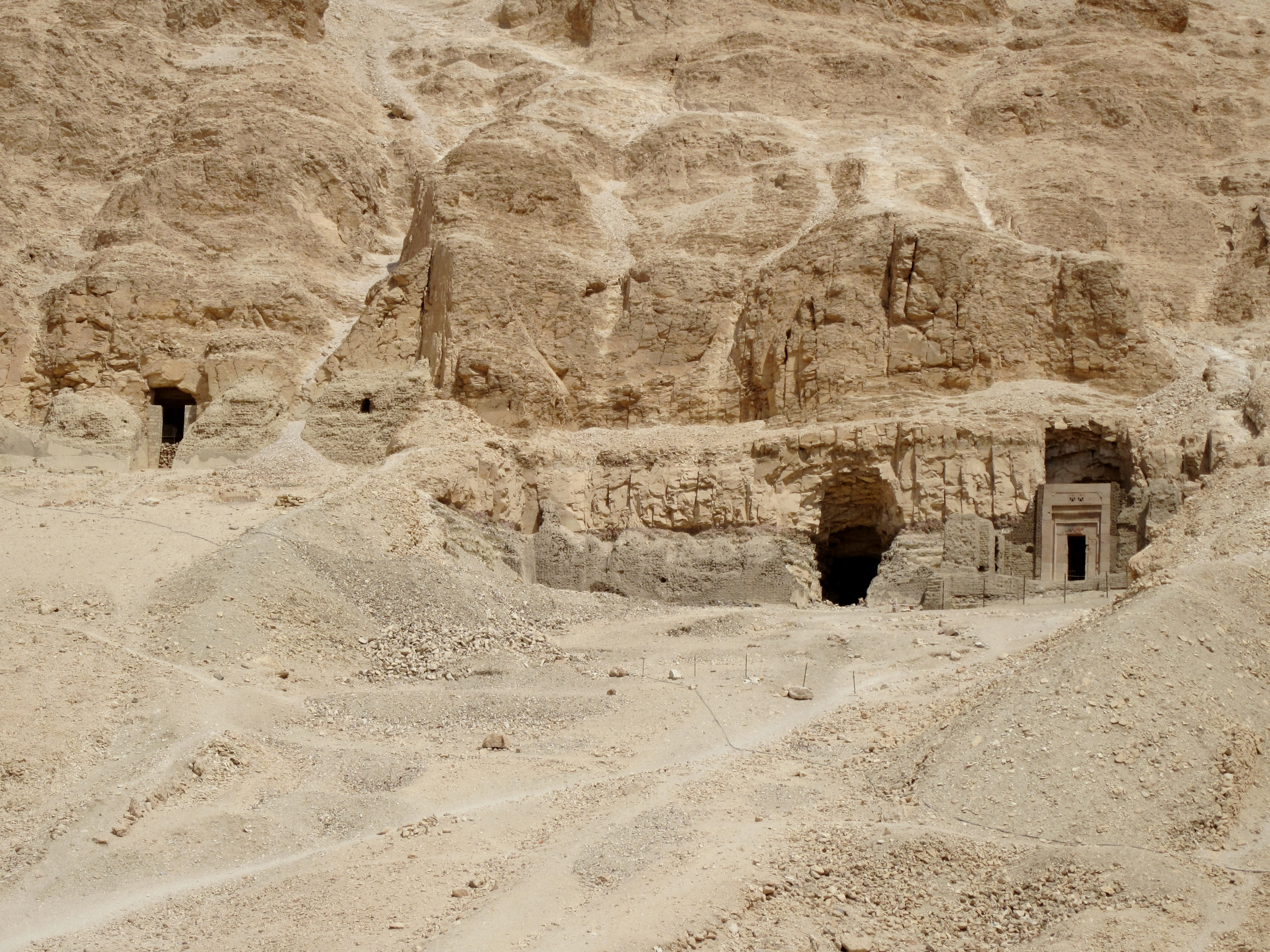 Tombs in Deir el-Bahari (Arabic for "Monastry of the North") in West-Thebes (Luxor) in Egypt.